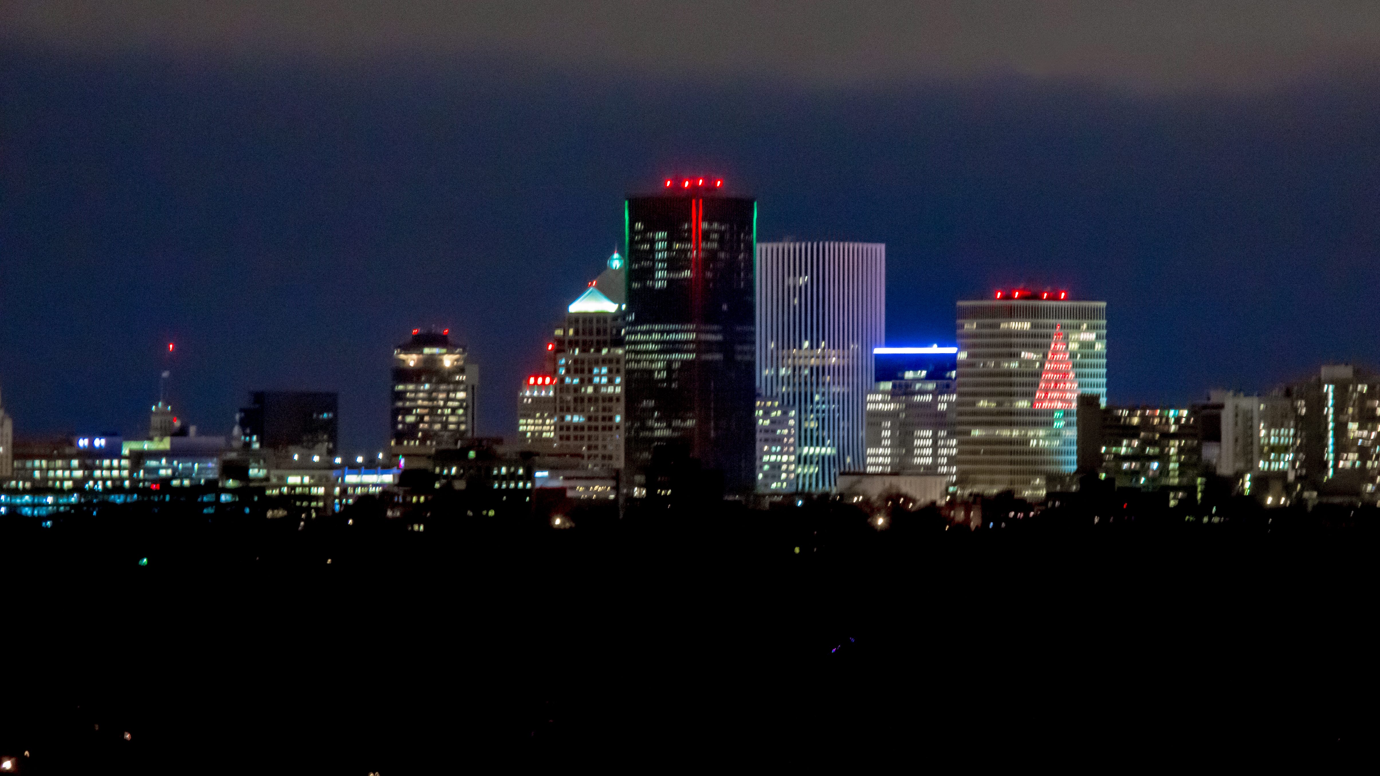 Rochester, NY Skyline in December 2015